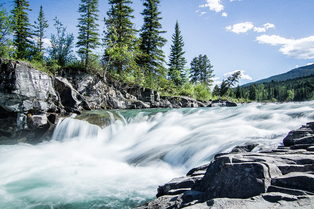 Q28479055 - Castle Provincial Park This photo was taken in a protected area in Canada, Wikidata item Castle Provincial Park (Q28479055)